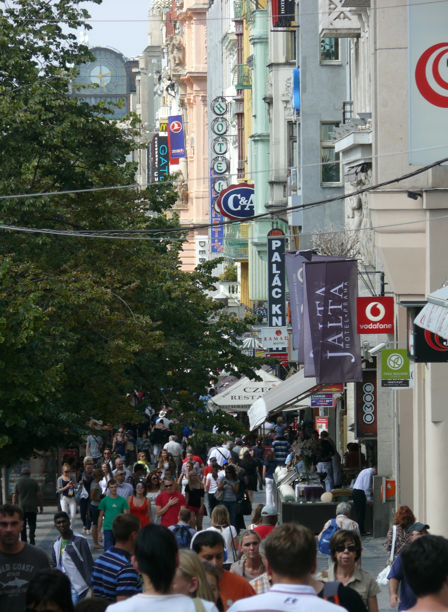 A footpath on Wenceslas Square